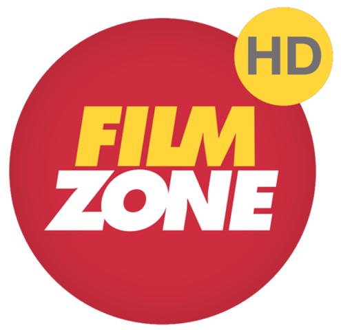 este el logo del canal de cable en alta definición